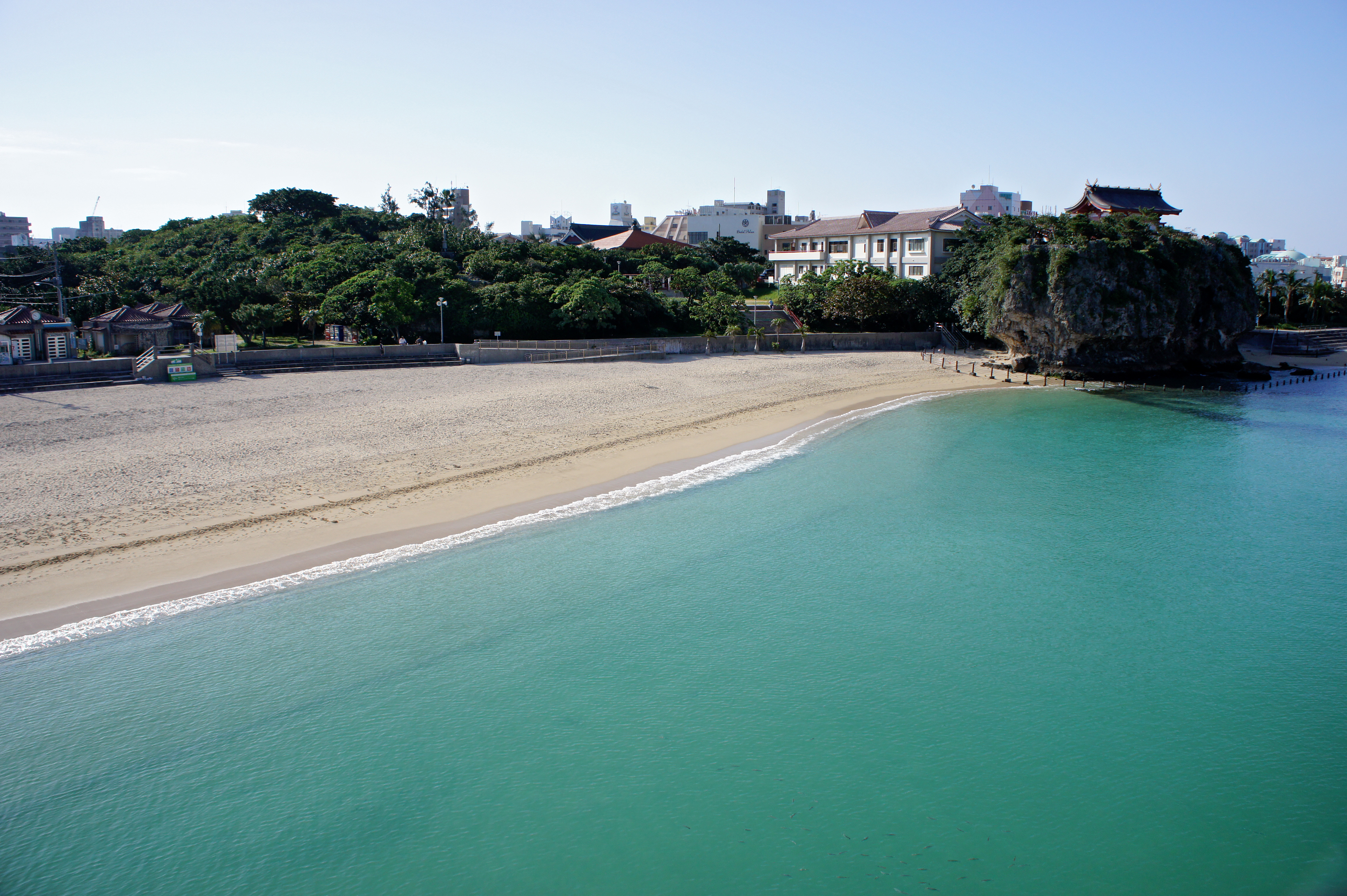 Naminoue Shrine and Naminoue Beach in Naha, Okinawa prefecture, Japan